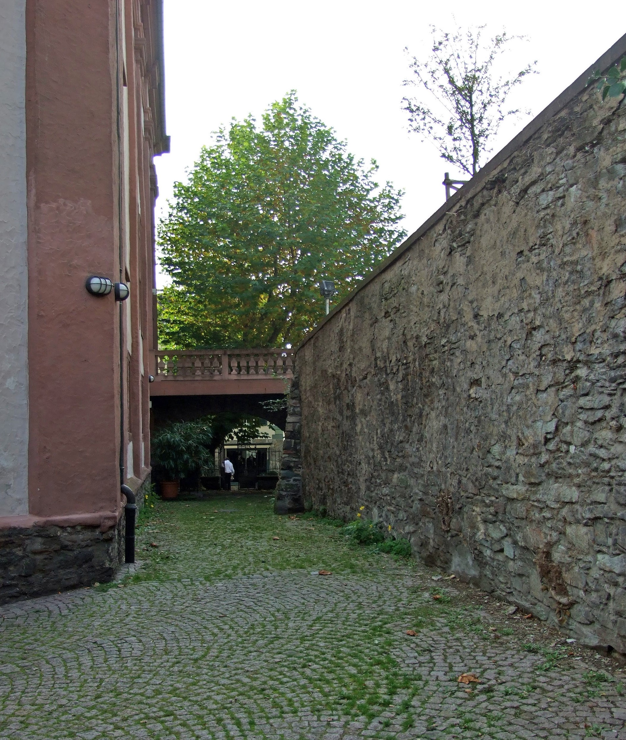 wall between Streitkirche (former: Roman Catholic, now: museum) and Stadtkirche St. Johann (Protestant)